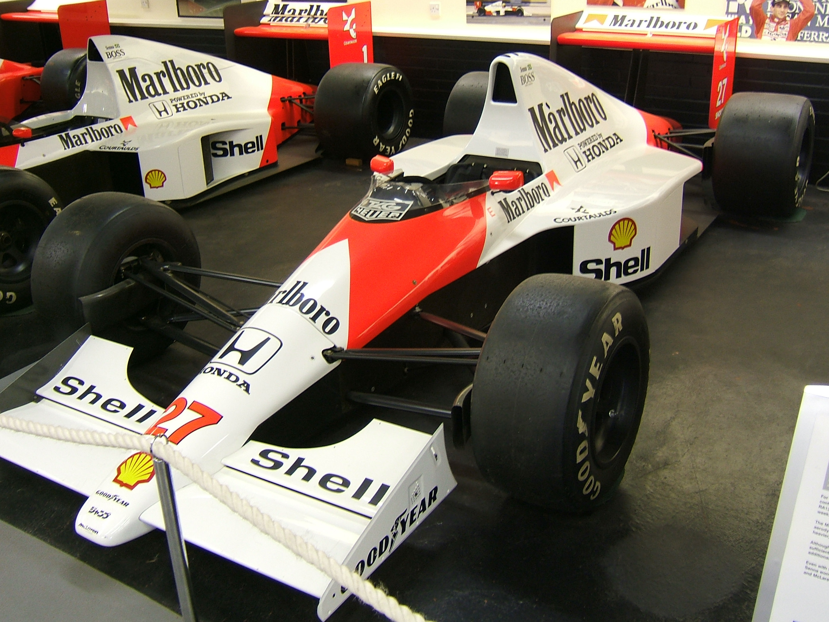 A 1990 McLaren MP4/5B Formula One car. In the Donington Grand Prix Collection museum, Leics., UK.